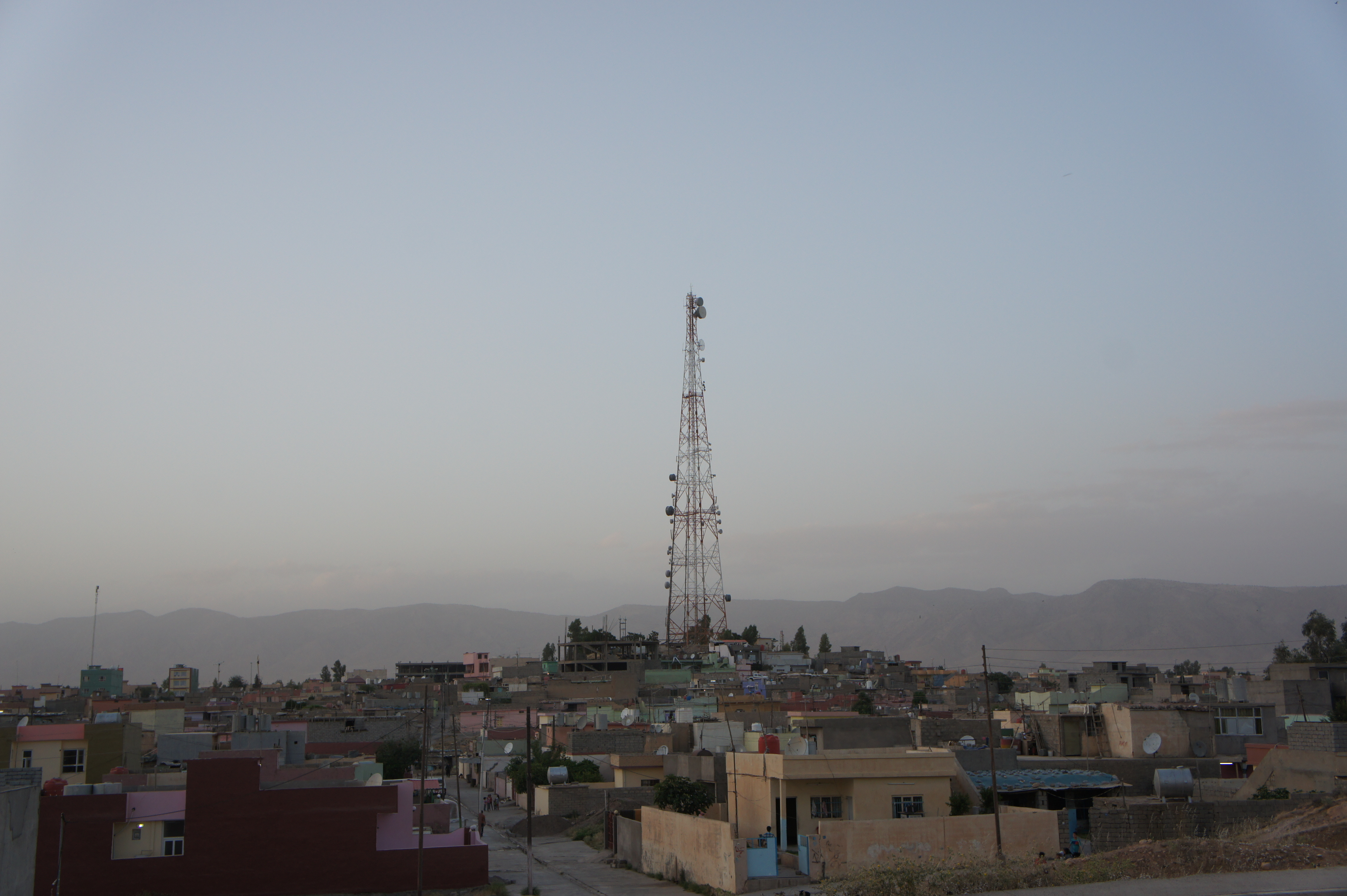 Simele, early evening, Dohuk Province, Iraq, 2012. Kurdî: Sêmêl, ber bi êvarê, Bashûrê Kurdistanê (Îraq), 2012.